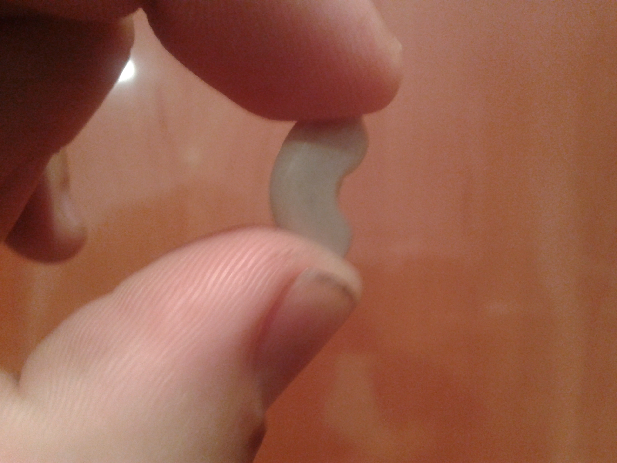 Mongeta del Ganxet, Hook Bean in Catalan.